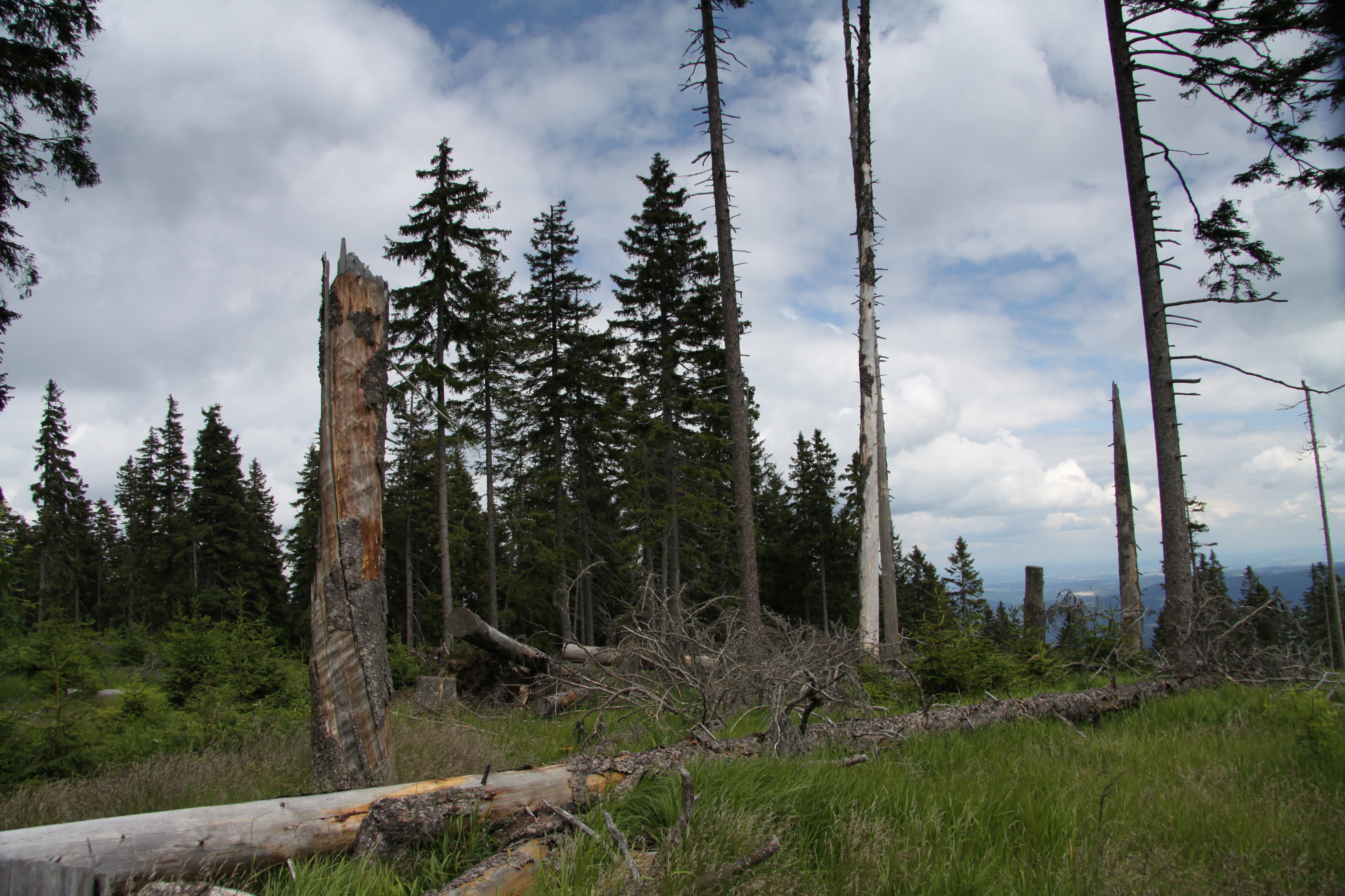 National nature reserve Boubínský prales, Prachatice District, Czech Republic